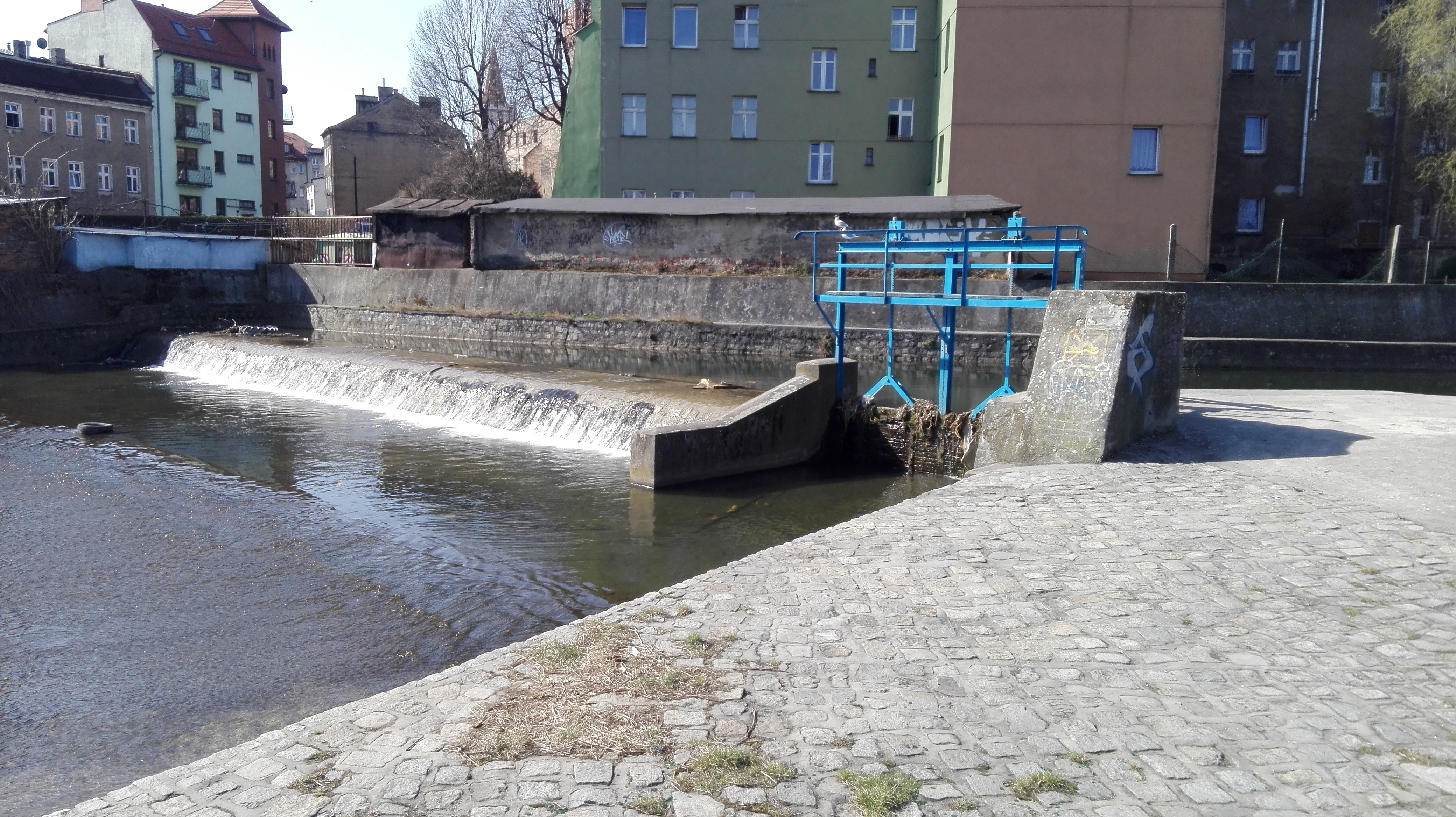 Prudnik River in Prudnik(town)